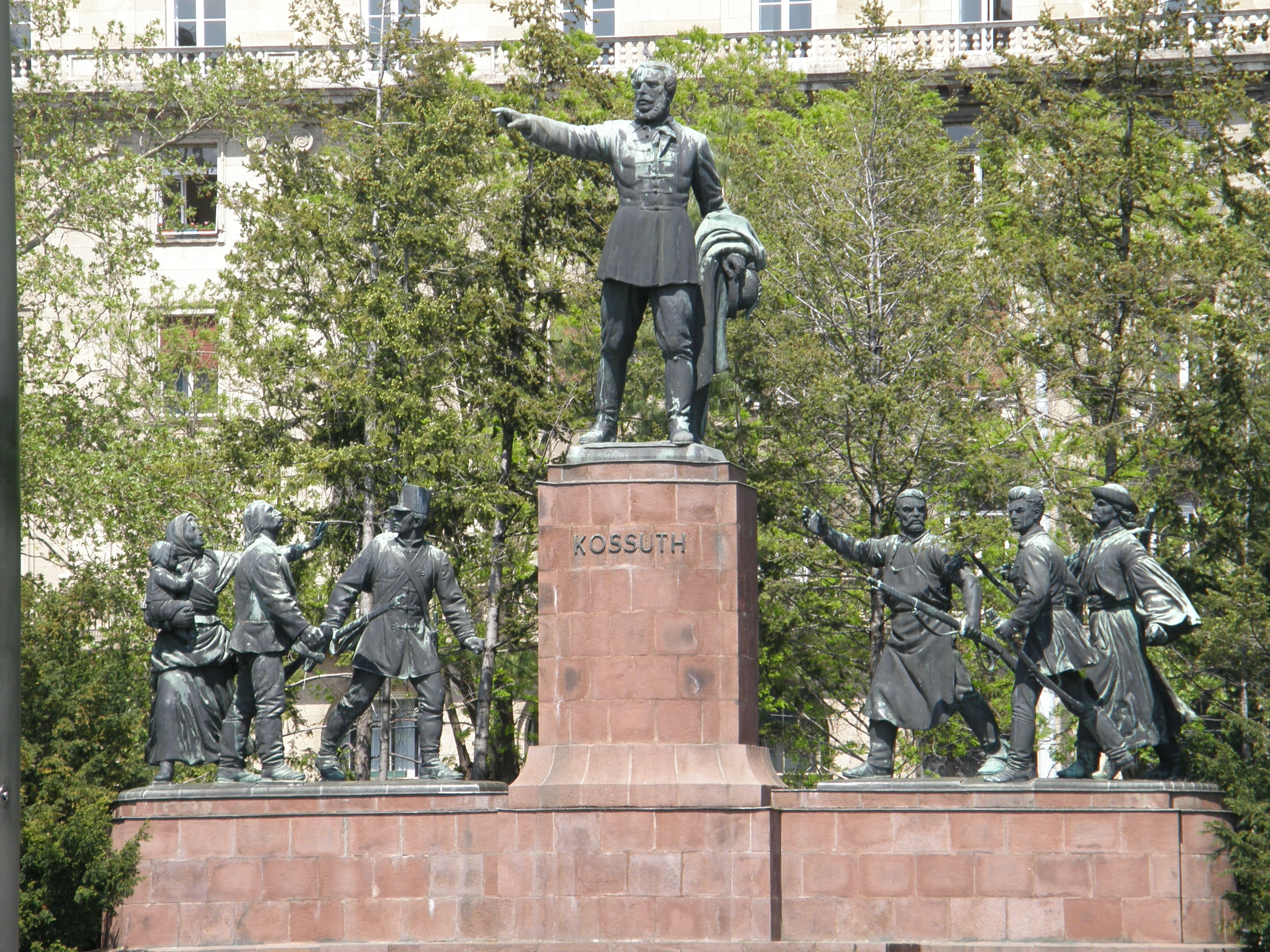 Kossuth monument